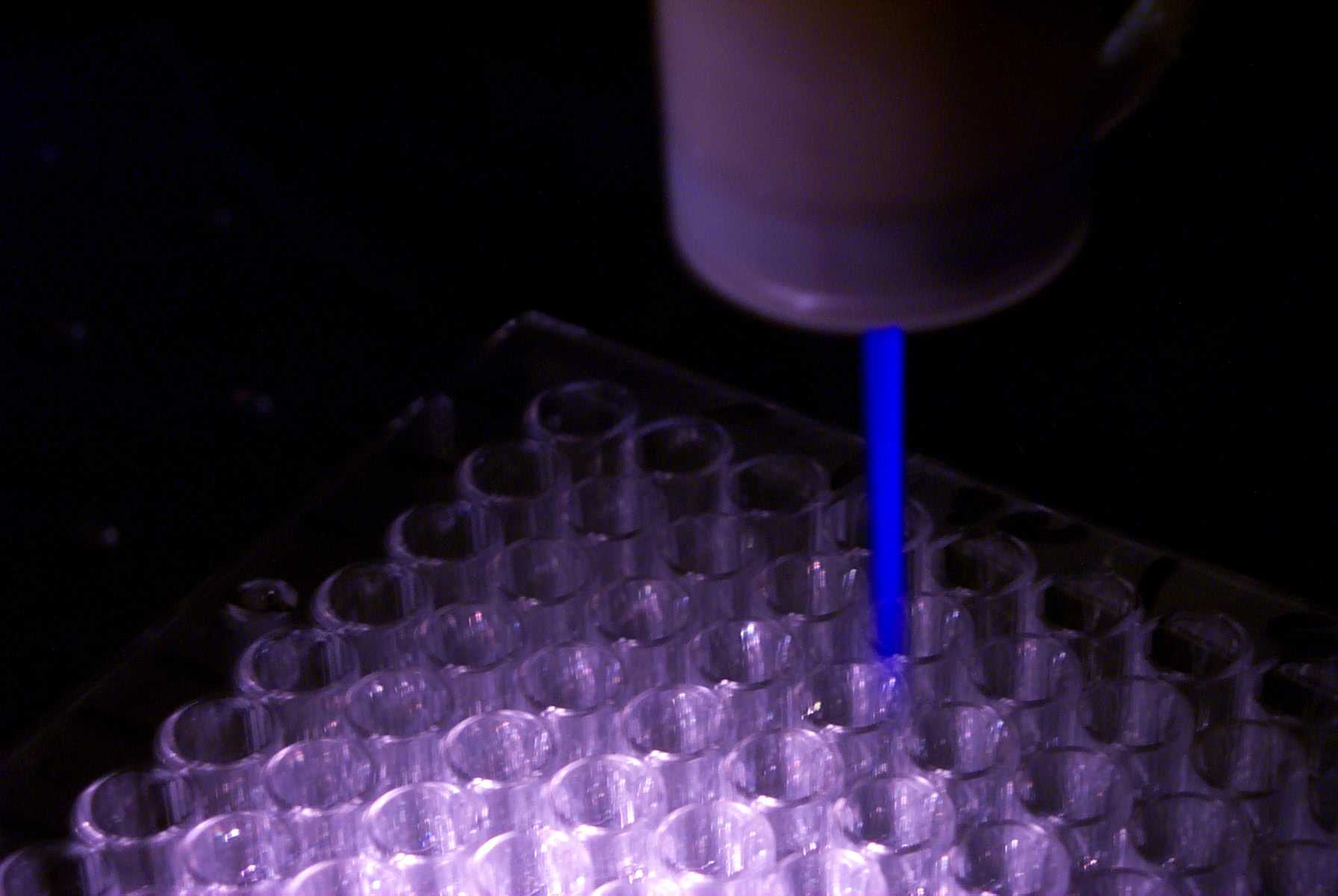 A low temperature plasma jet: Plasma Pencil